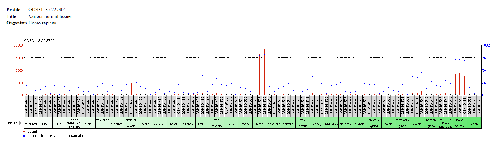 NCBI GEO database, Profile GDS3113 / 227904 for BEND2.